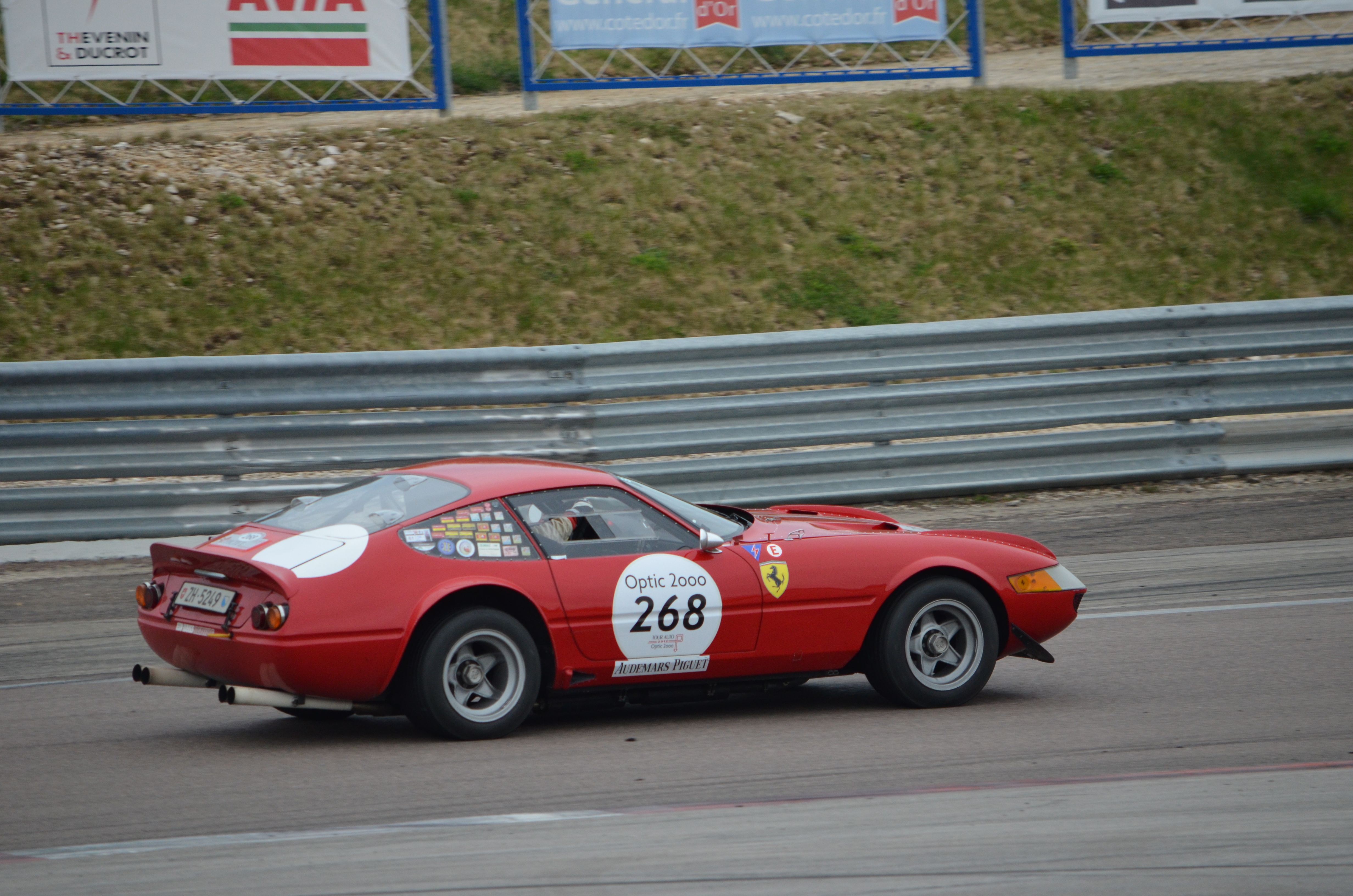 268 FERRARI 365 GTB/4 Gr.IV 1971 s/n 14429 MEIER/MEIER